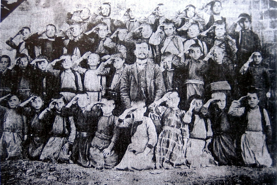 Greek School in Kleisoura, 1908